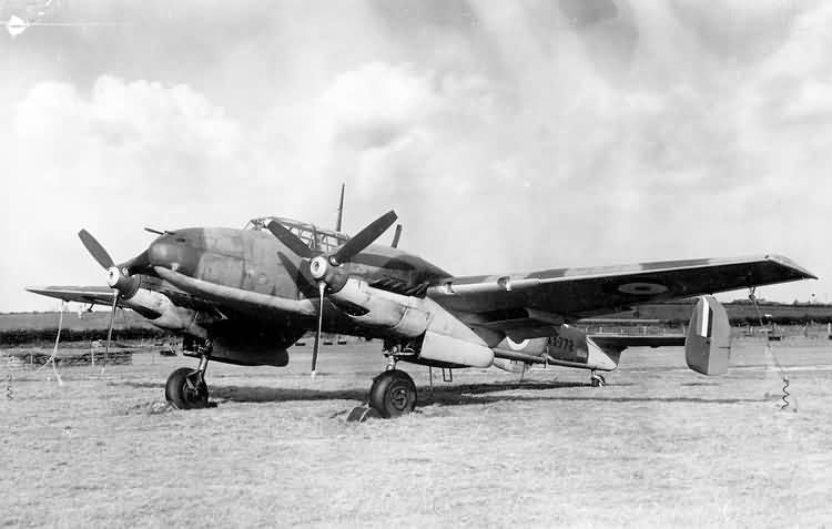 A Messerschmitt Bf 110 C-4 (c/n 2177), probably at RAF Duxford in 1941. This aircraft belonged to the German Luftwaffe reconnaissance unit 4(F)/14 (code 5F+CM) and was force-landed by gun-fire at Goodwood (UK) on 21 July 1940. It was repaired at Royal Aircraft Eestablishment Farnborough with parts of another Bf 110 that was shot down near Wareham on 11 July 11. It was flown for the first time on 15 February 1941. Later it was tested at RAE Duxford wearing a new colour scheme and the RAF serial AX772. After the trials the aircraft assigned to No. 1426 Squadron. It was stored in November 1945 and subsequently scrapped in November 1947.